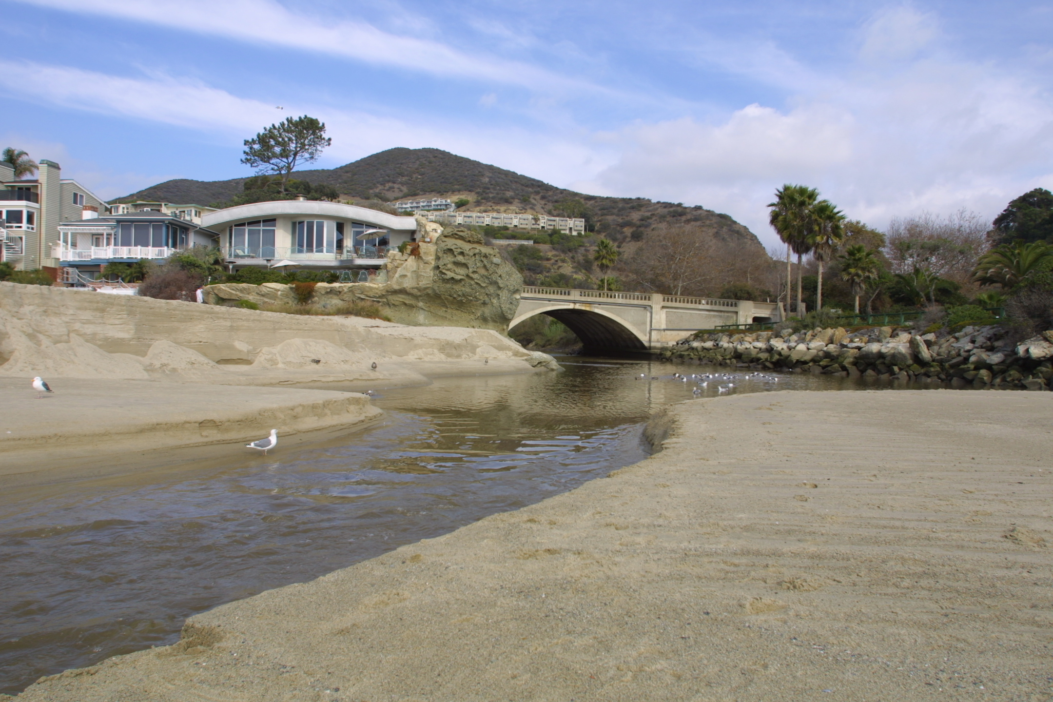 Mouth of Aliso Creek in Laguna Beach, after it has breached the sand berm and mostly drained the lagoon. The muddy water originates from rainfall in the upstream watershed.